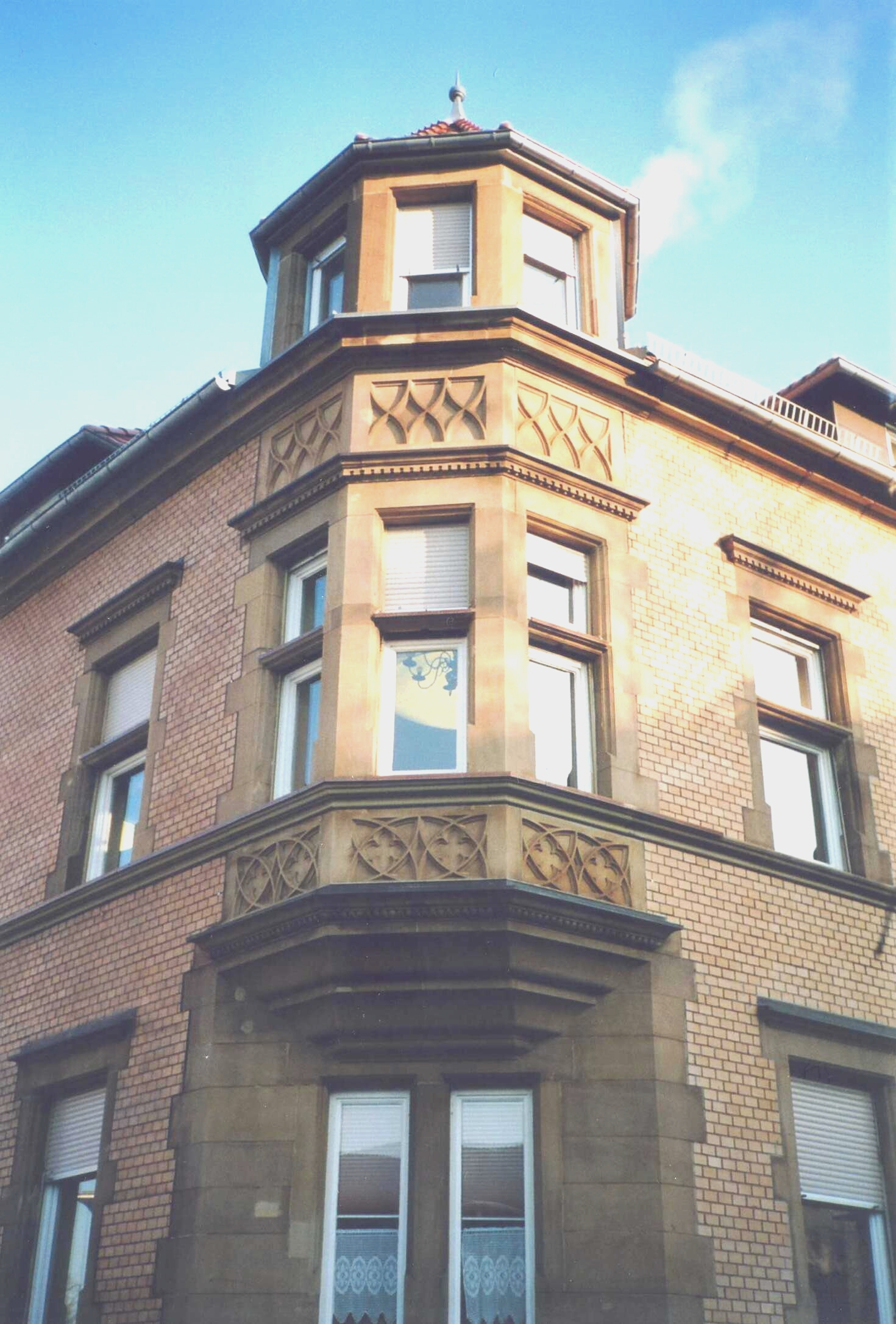 Heilbronn